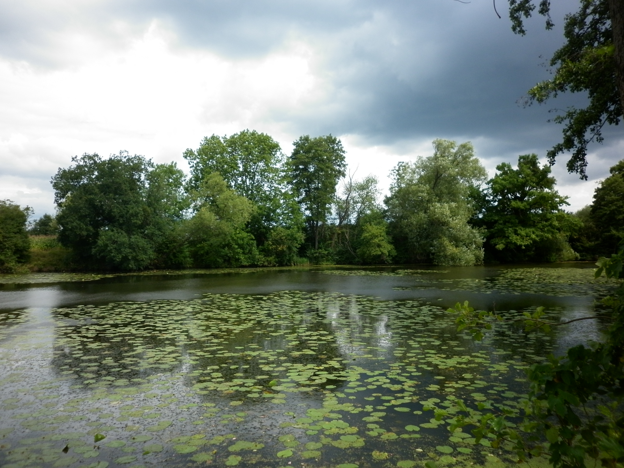 Natural monument "Mělické labiště" in Pardubice District, Czech Republic. Old river channel of Elbe with typical plant and animal species. Water surface covered with Nuphar lutea .